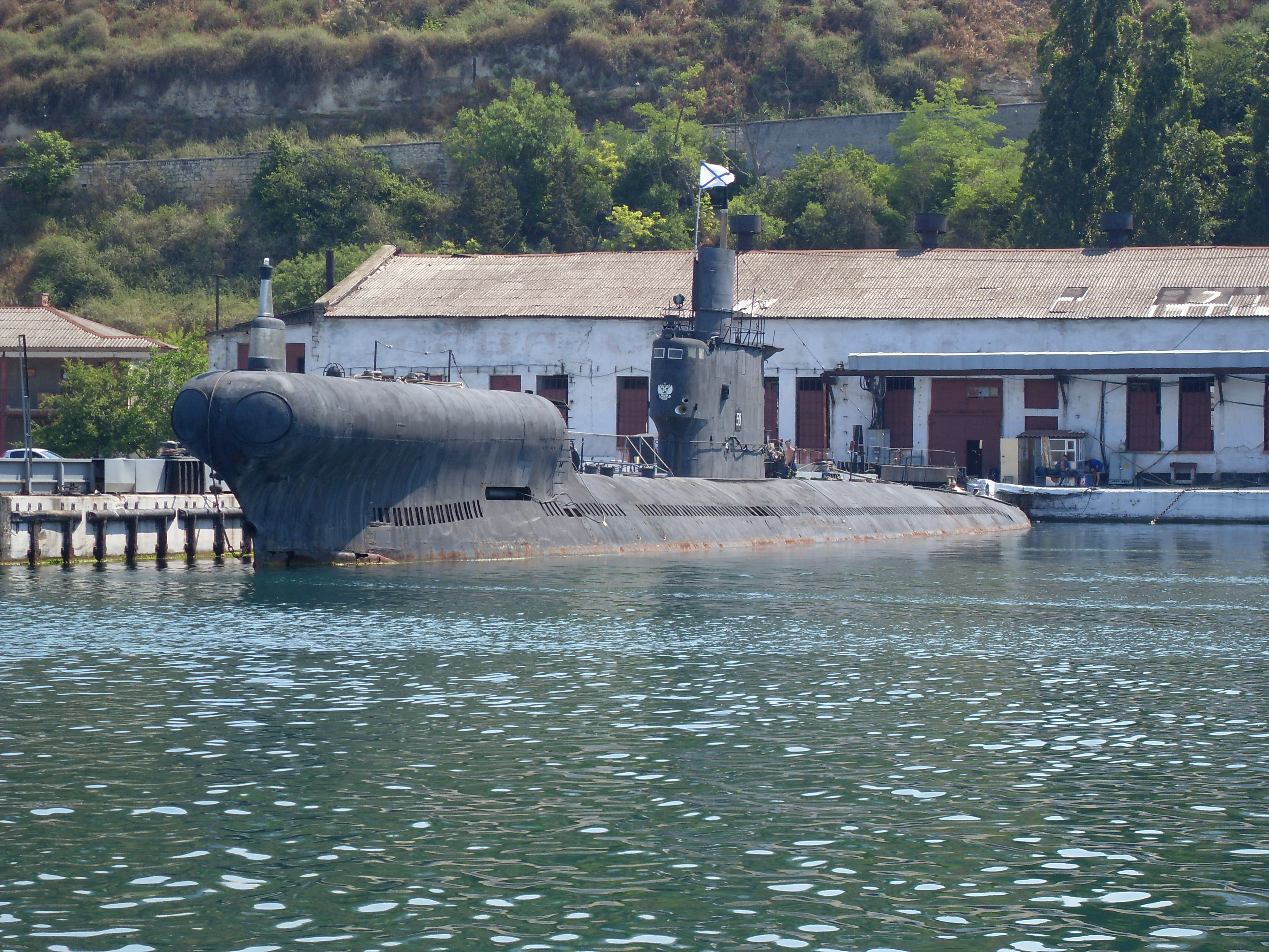 The Russian submarine PZS-50. Sevastopol, Russian navy, 2011. Other names: S-49, SS-49. Finally named PZS-50 in 1995.